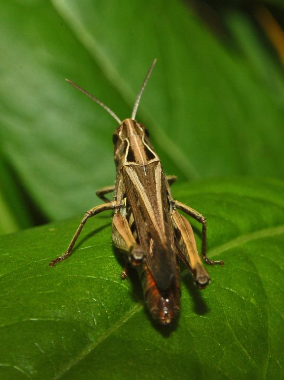 Acrididae - Omocestus rufipes